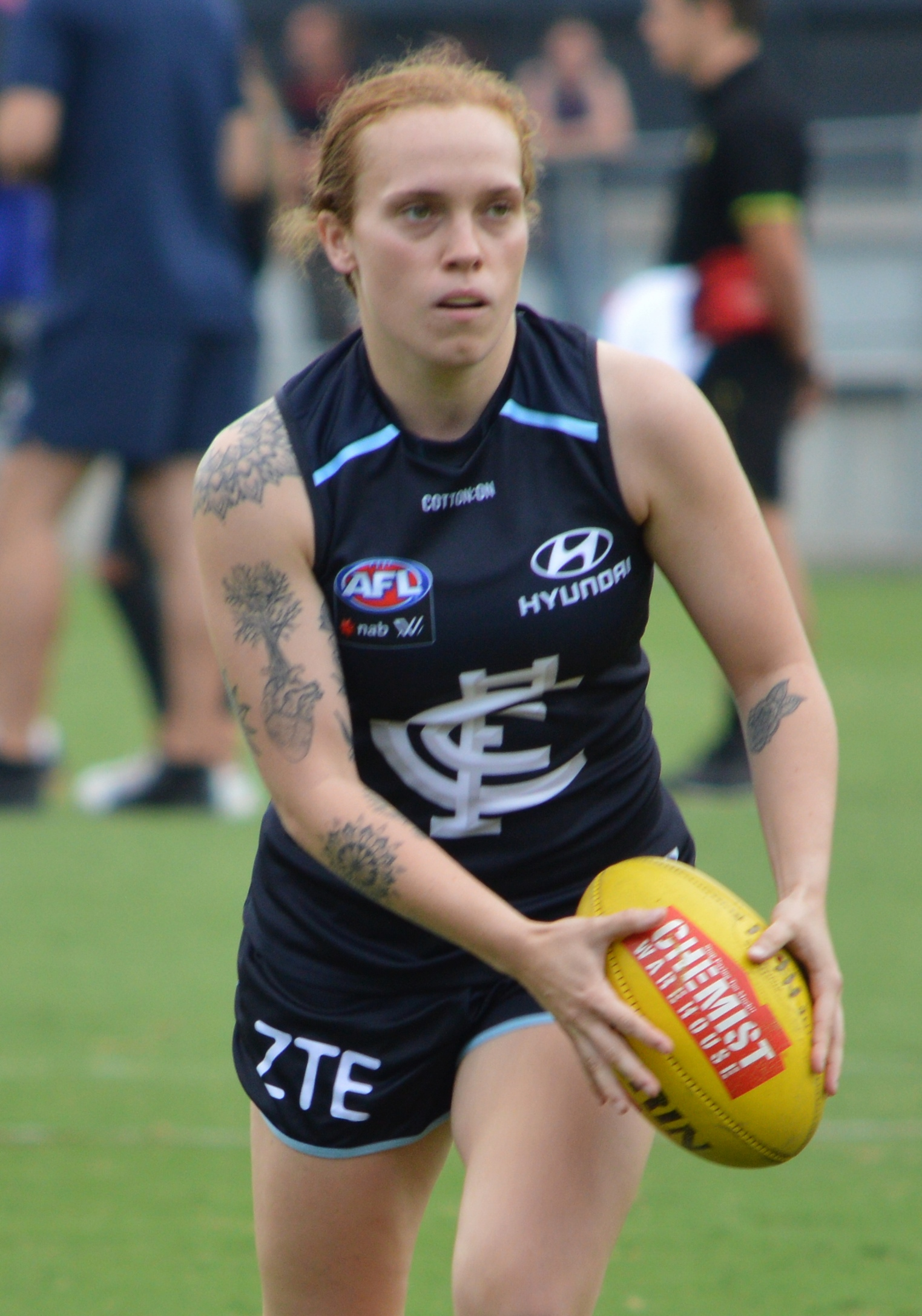 Tilly Lucas-Rodd during the round 6, 2018 AFL Women's match between Carlton and Melbourne.